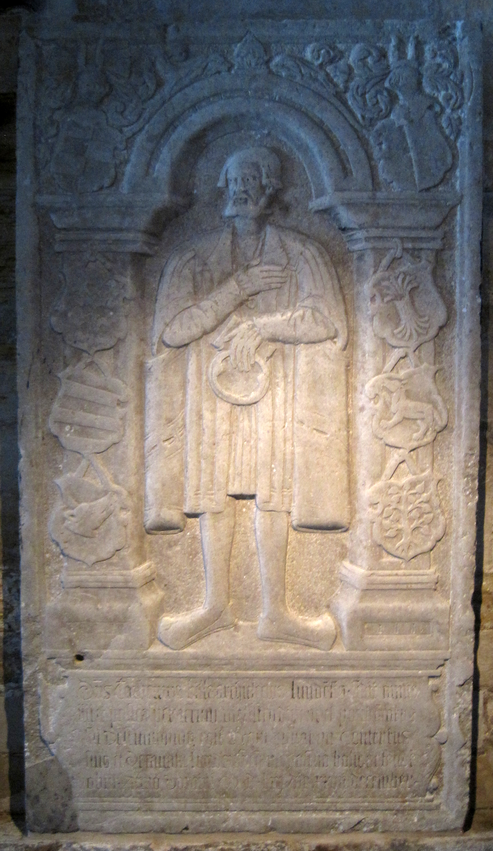 Ledger stone depicting Torben Bille (died 1553), the last catholic archbishop of Lund (1532-1536). The stone is placed in the crypt of Lund Cathedral.